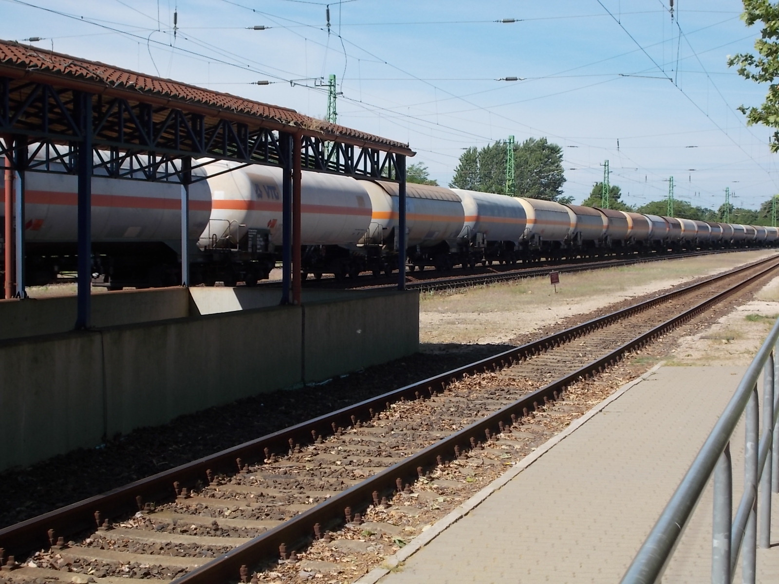 Abony railway station. A train station of the Budapest–Cegléd–Szolnok railway line. - Vasút Street, Abony, Pest County, Hungary.